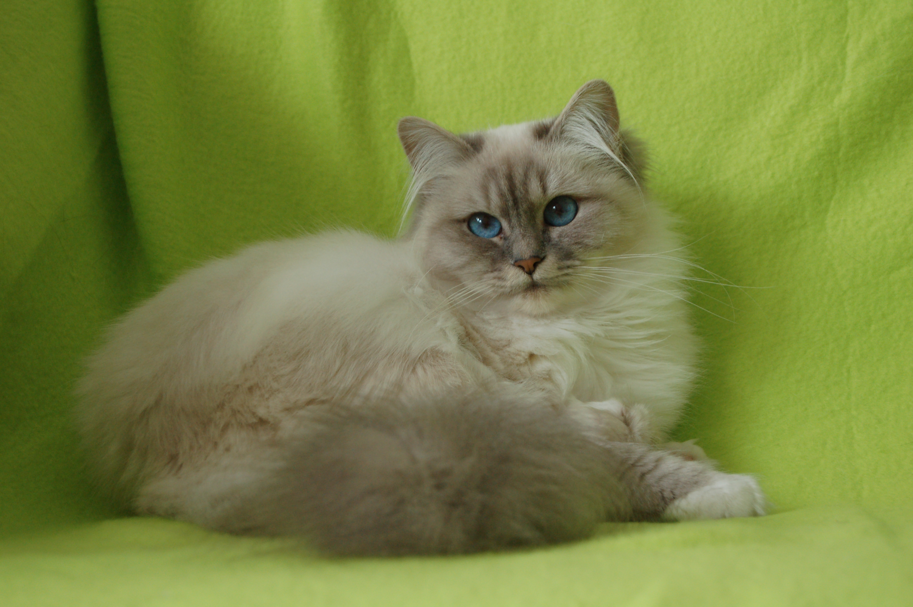 Blue tabbypoint poes, eigendom M.E. Schaap-Tims.